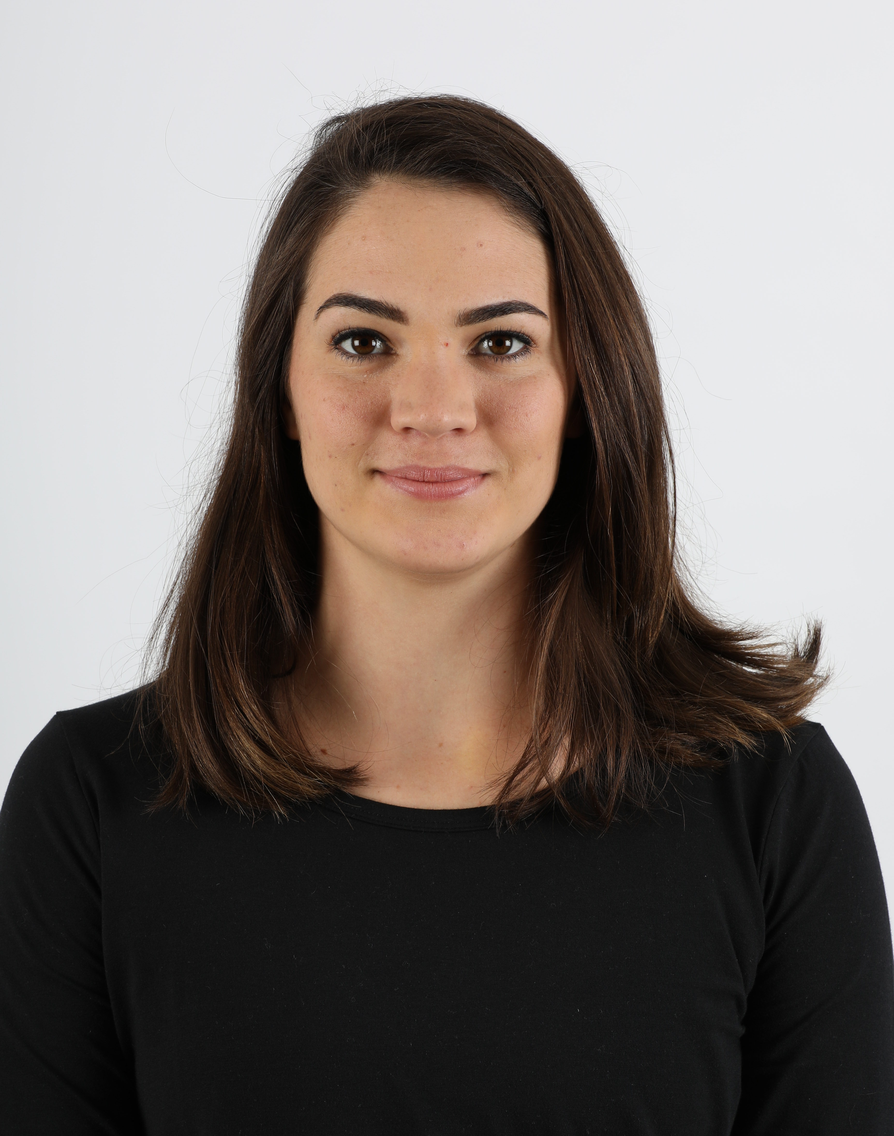 Athletes' photo project at the 2018/19 Innsbruck-Igls Luge World Cup: Summer Britcher (USA)